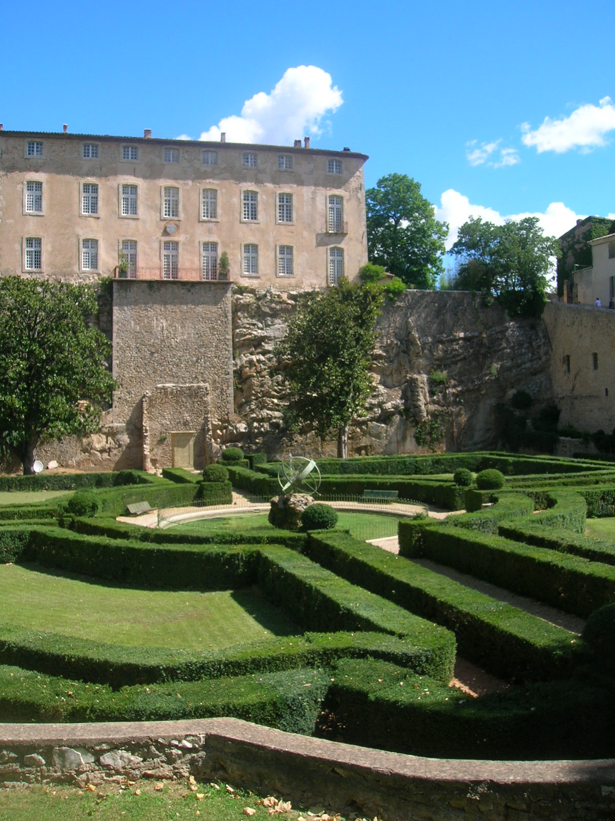 Le Nôtre's garden at Entrecasteaux, France.